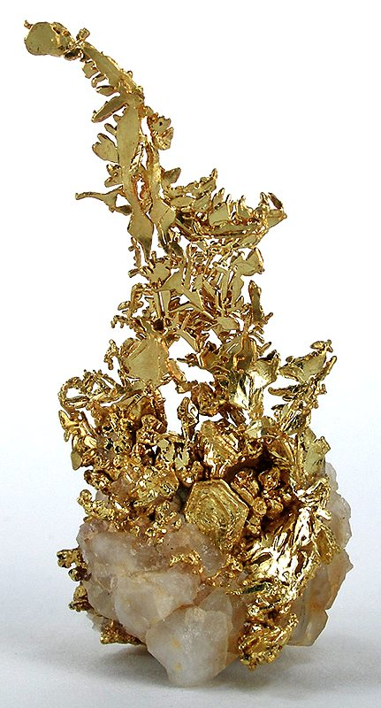 Gold Locality: Mother Lode (Mother Lode belt), Tuolumne County, California, USA (Locality at ) Size: miniature, 5.3 x 2.7 x 2.4 cm Gold This gold specimen is absolutely exquisite. I do not use the hyperbole lightly. It has natural pocket crystals, not etched out of surrounding matrix with acid, and so preternaturally bright and with a complex patina (as some such crystals can be, this is at its best). It is a large miniature which for many years was the best piece in the collection of my own mentor, Carlton Davis of Columbus , Ohio. He had bought it from Hugh Ford's famous NYC mineral shop in the 1950s for what at the time must have seemed a rather high price justified by its striking quality. (When Carl sold his collection, this piece went first to Bill Pinch and then to Mark Feinglos). The mine name of origin has been lost but it is from the motherlode area of old mining in California, mostly contained within the current Tuolumne County. The crystals are stunningly bright and sharp, and the specimen is displayable from both sides. It is intricately 3-dimensional in a manner that photos can only begin to convey. Illustrated in a large photo in the GOLD special book/issue of Lapis a few years ago, this is one of the more memorable gold miniatures in my experience and it simply leaves you stunned, to see in person, is all i can say. This specimen was painted in the 1970s by one of Carl's friends, a leading mineral artist of the time, and the painting comes with the piece. ex. Dr. Mark Feinglos Collection and Carlton Davis Collection (my own mentor when i was a kid). Former COVER PIECE, ROcks and Minerals magazine, Jan-Feb 1978.